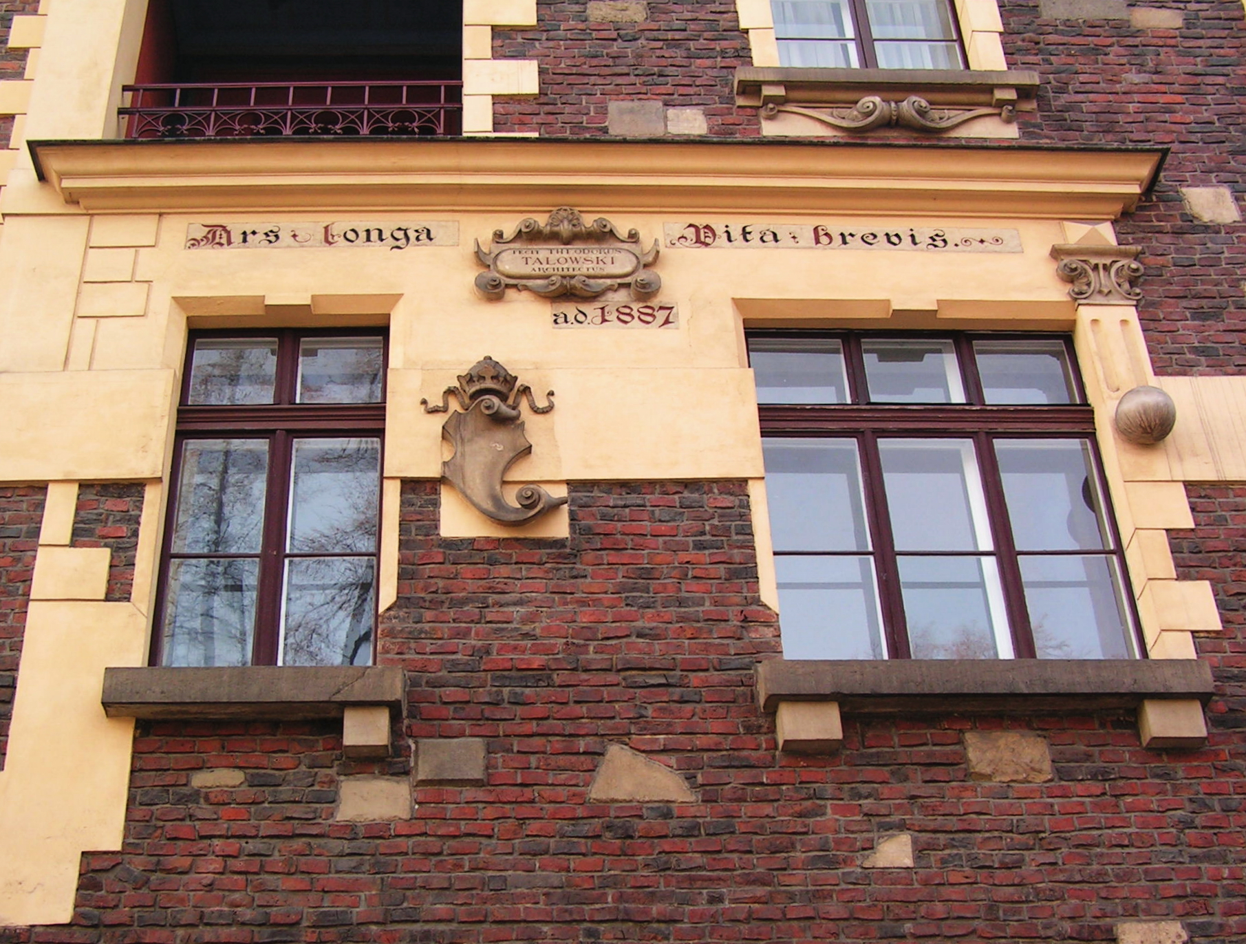 "Festina lente" house by architect Teodor Talowski, 1887, Retoryka 7 street, Kraków, Poland